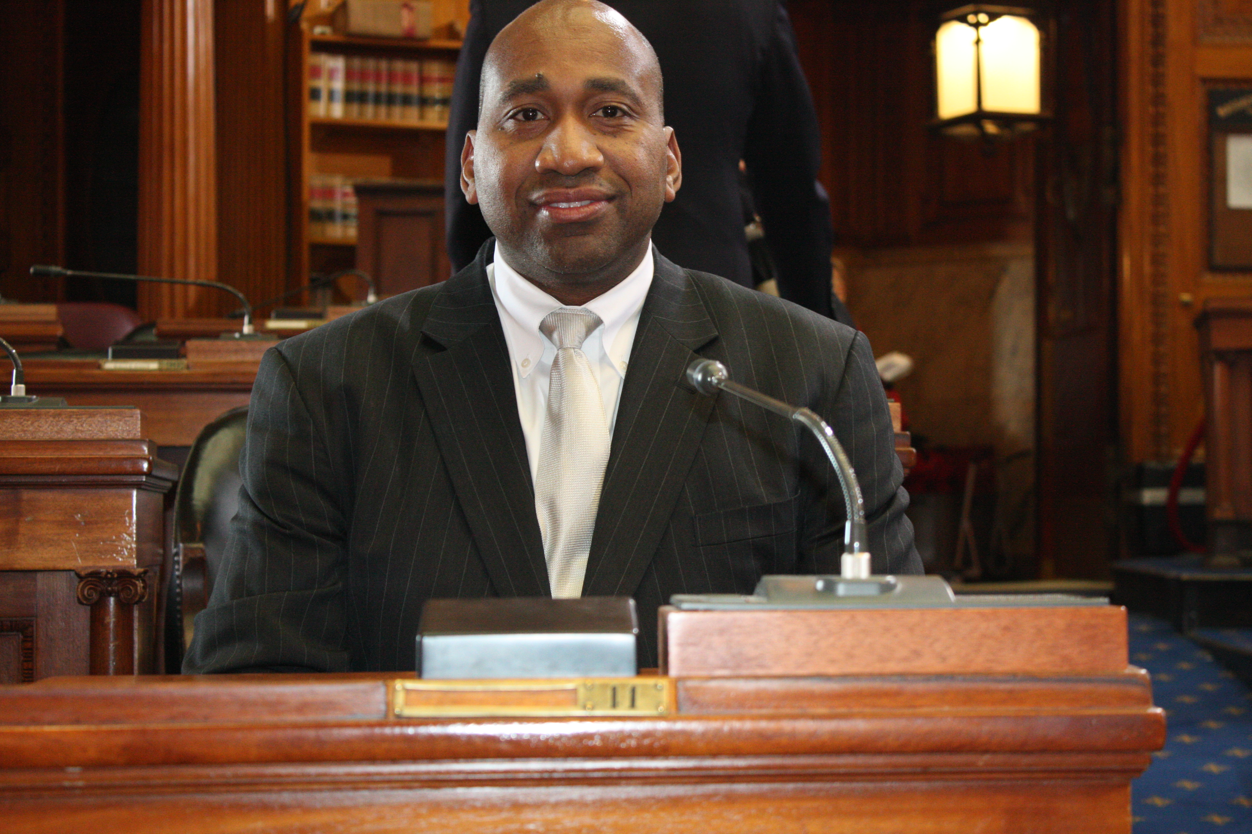 Rep. Holmes in his seat